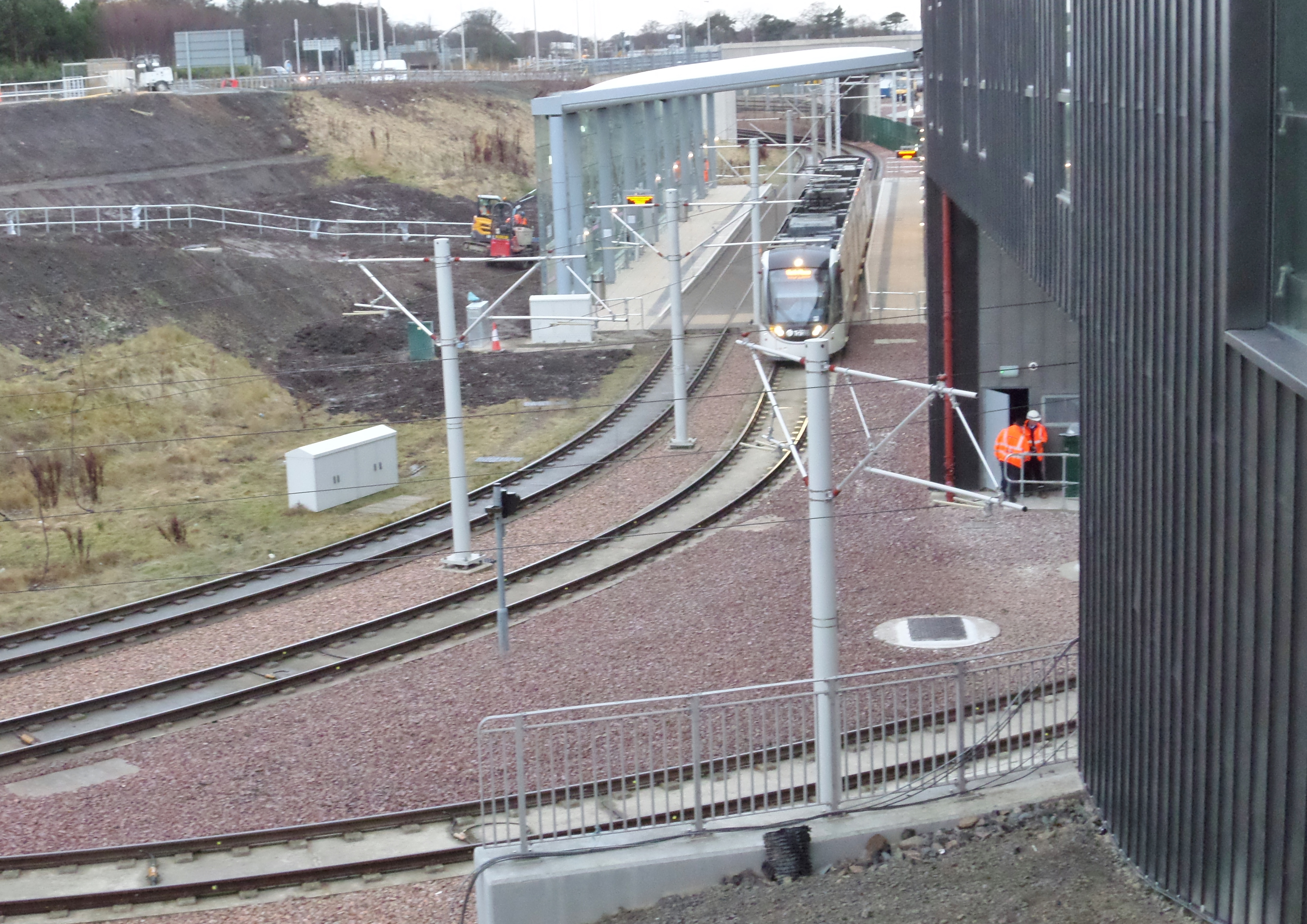 Edinburgh Gateway Tram Stop from the station, Scotland